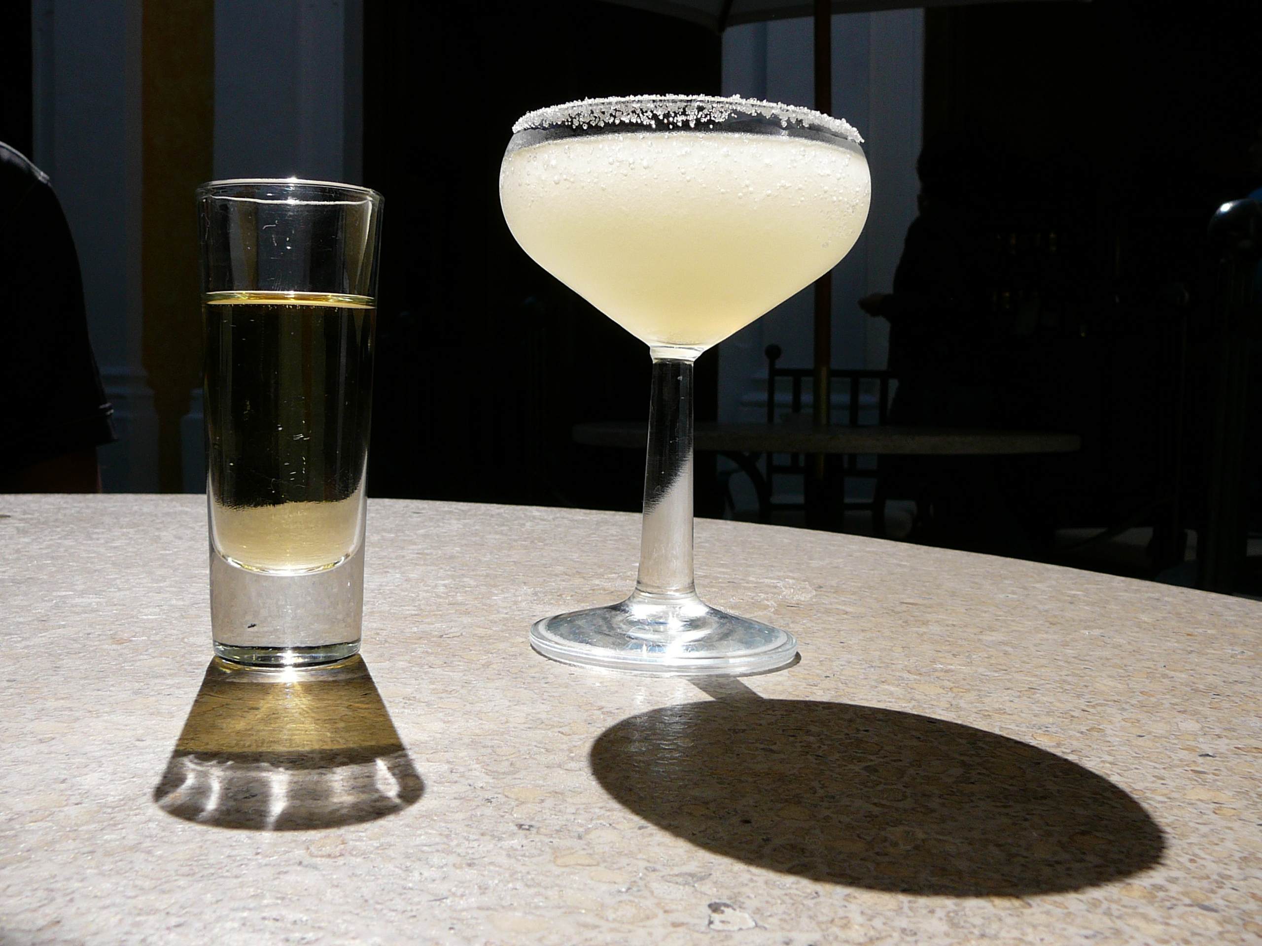 Our drinks at the Jose Cuervo distillary in Tequila, Mexico.